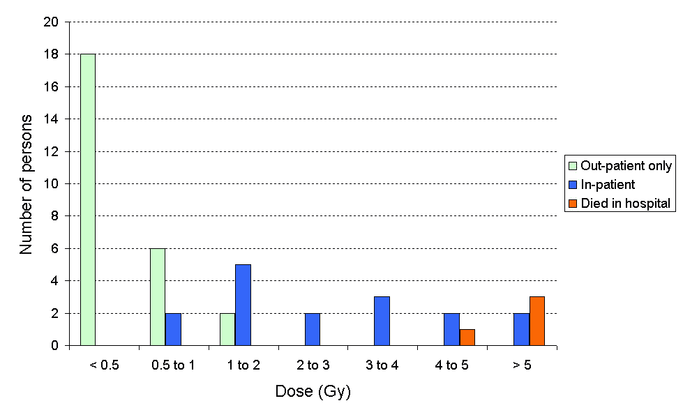 Health outcomes for the 46 most contaminated persons in the Goiânia accident, I took data from a IAEA report and used this for making the bar chart.